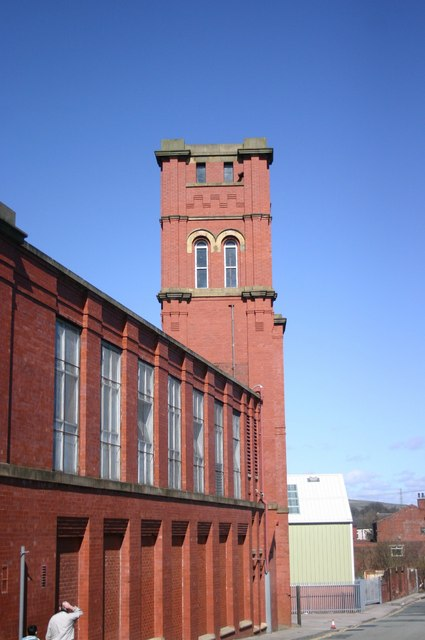 The "Mop Shop" A mill in Heywood know locally as the "Mop shop"